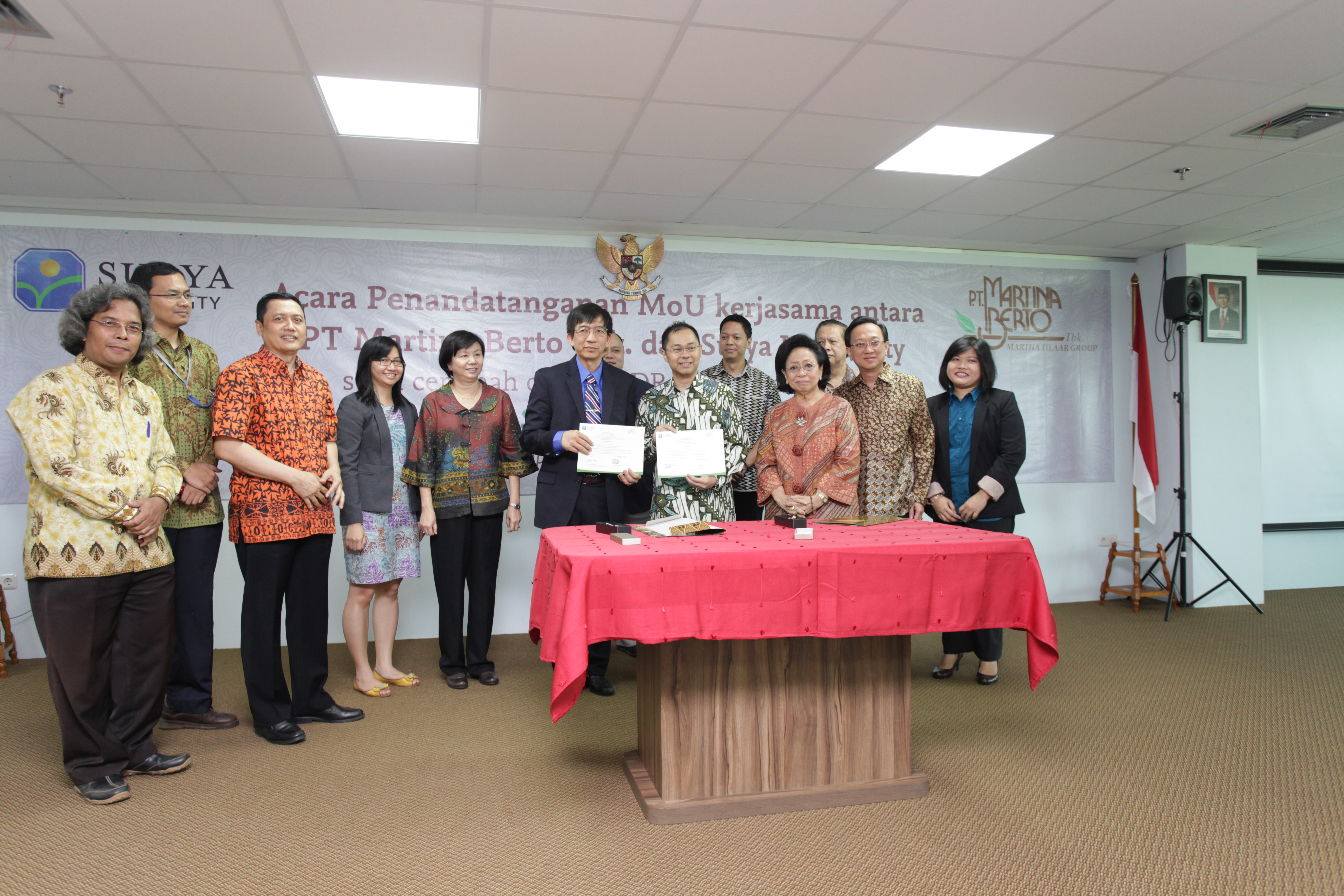 Surya University Colaboration Research with Martha Tilaar